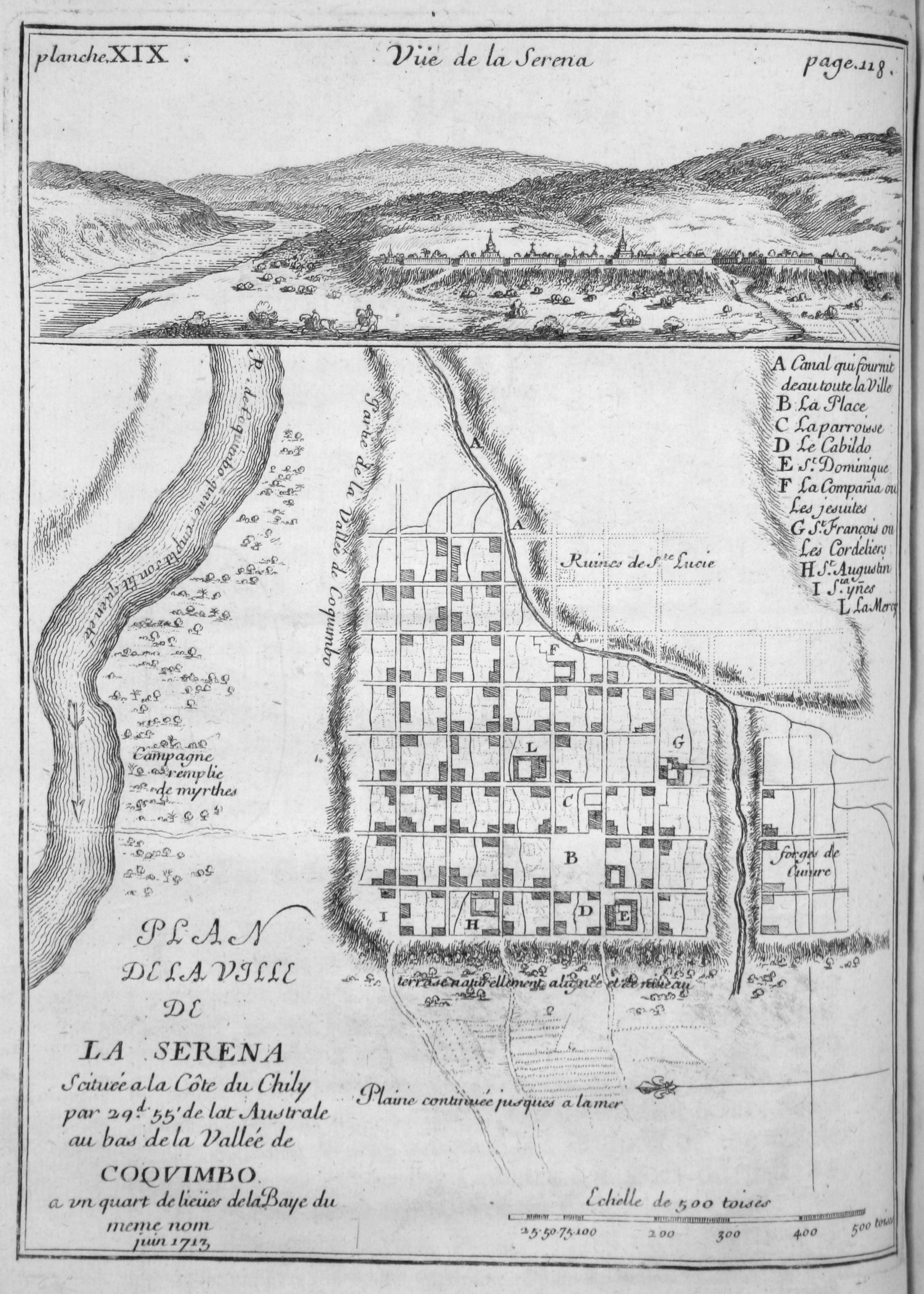 Planche XIX